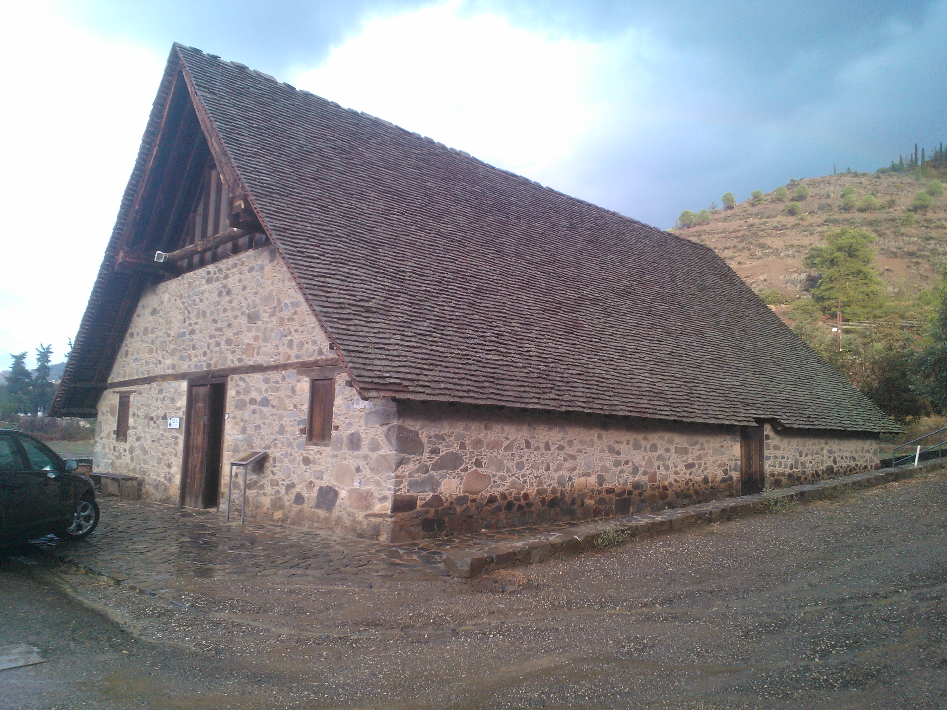 Panagia Podithou in Galata, Cyprus